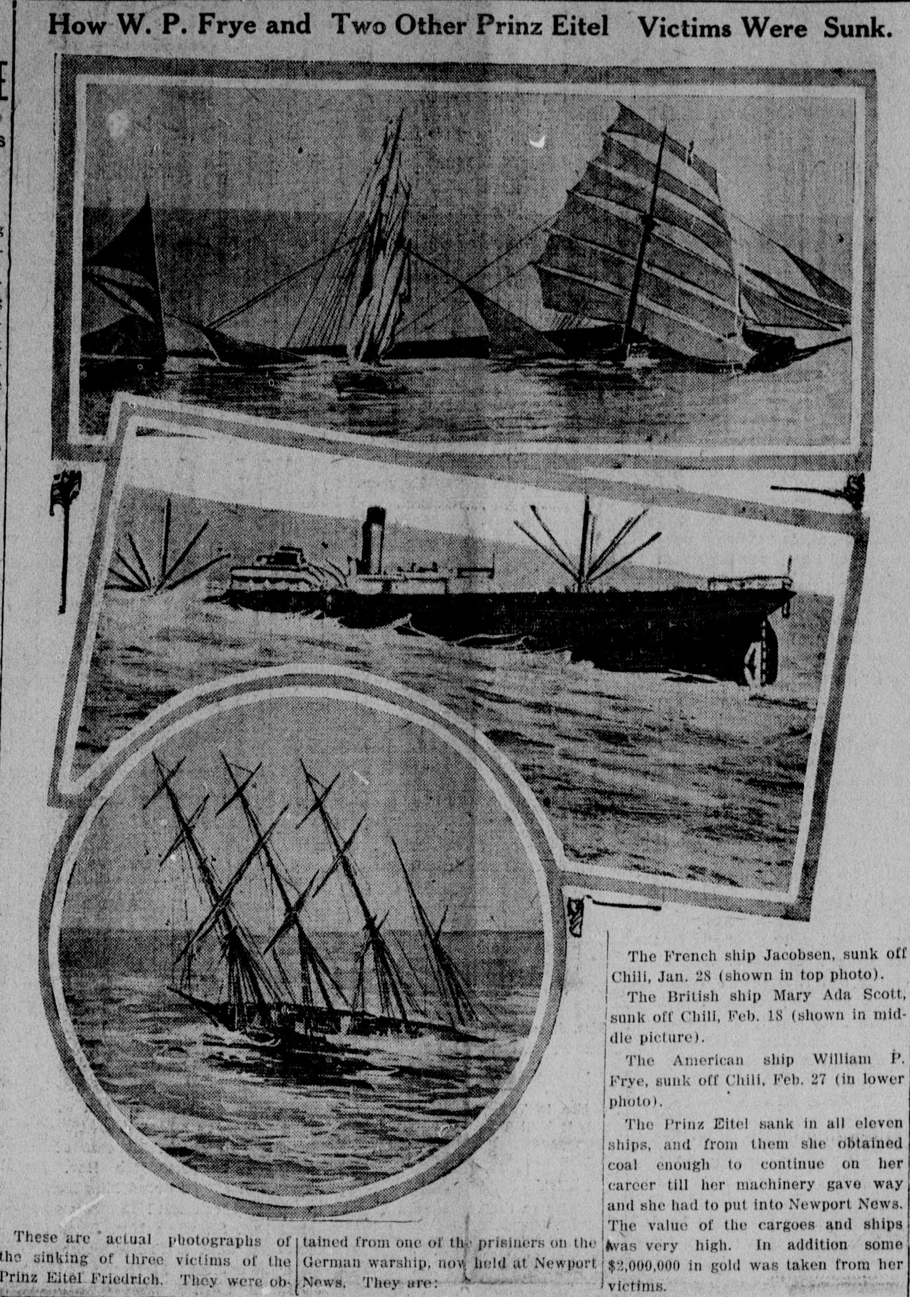 These are actual photographs of the sinking of 'three, victims of the Prinz Eitel Friedrich. They were obtained from one of the prisoners on the German warship, now held at Newport News. They are: The French Ship Jacobsen, sunk off Chili, Jan. 28 (shown in top photo). The British ship Mary Ada Scott, Feb. 18 (shown in middle picture). The American ship William P Frye, sunk off Chili Feb 27 (in lower photo). The Prinz Eitel sank in all eleven ships, and from them she obtained coal enough to continue on her career till her machinery gave way and she had to put into Newport News. The value of the cargoes and ships was very high. In addition some $2,000,000 in gold was taken from her victims.